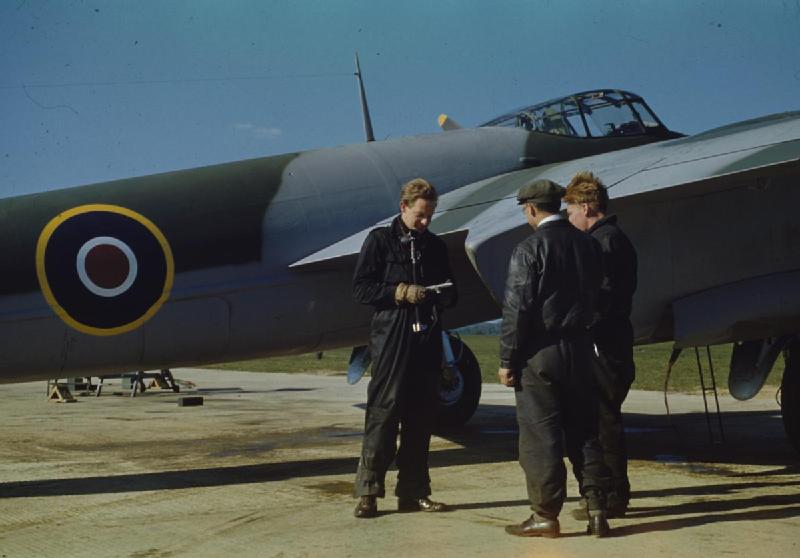 IWM caption : BUILDING MOSQUITO AIRCRAFT AT THE DE HAVILLAND FACTORY IN HATFIELD, HERTFORDSHIRE, 1943. Test pilot John de Havilland checking the flight log book with two fitters beside a Mosquito after a test flight.